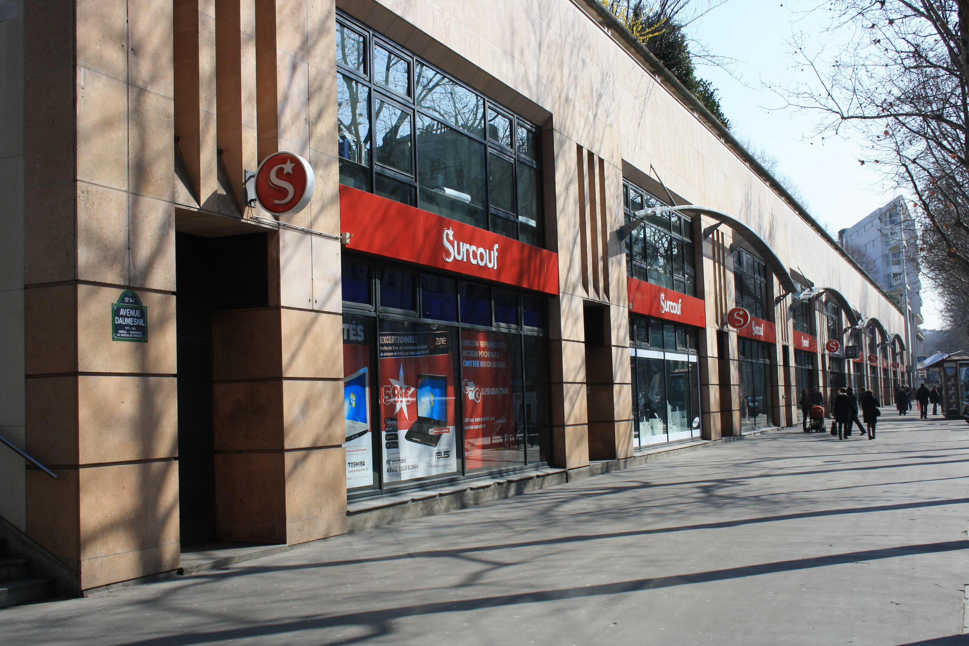 Surcouf computer shop in Avenue Daumesnil street in Paris.